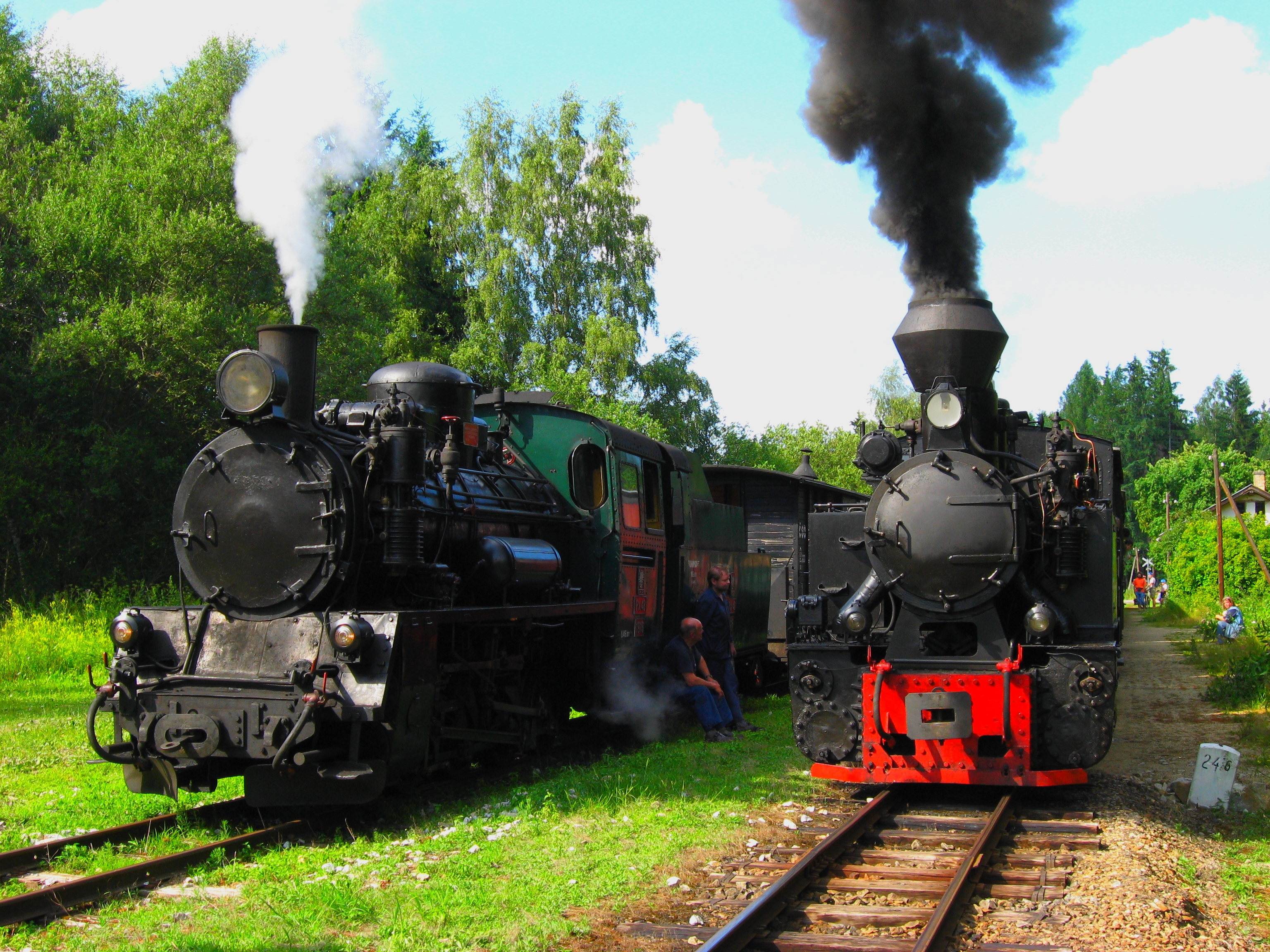 Steam trains meeting in Senotin.